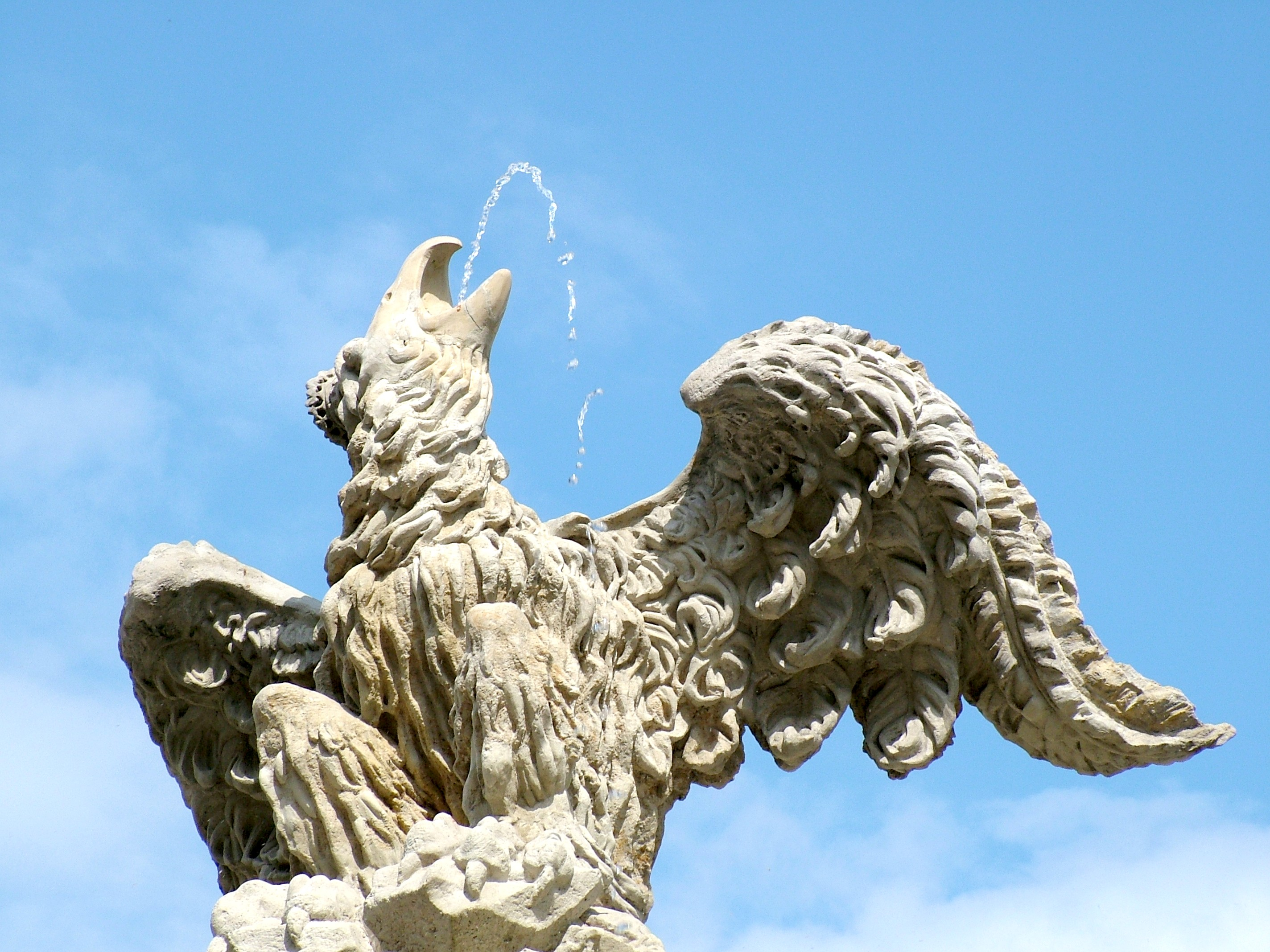 Top of the fountain sculpture, square of White Eagle, Szczecin Poland.